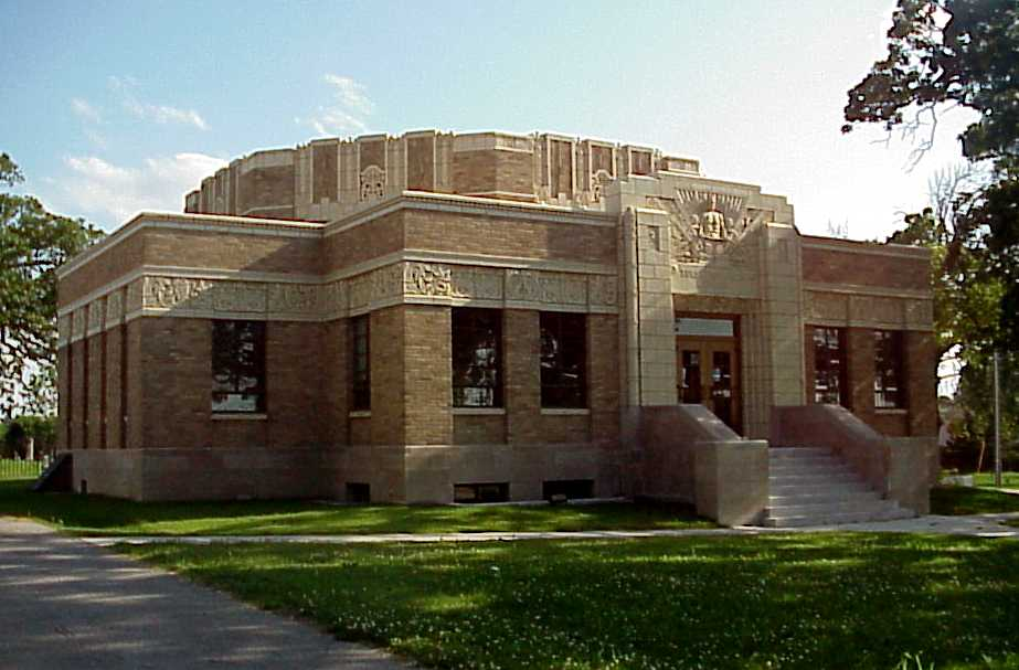 Tulsa Fire Alarm Building (built 1934), 1010 E. 8th St. Architect, Frederick V Kerchner, rehabilitation by Fritz Baily Architects, c. 2005. A major example of the WPA Modern school of the Art Deco movement. Listed on National Register of Historic Places, September 2, 2003.